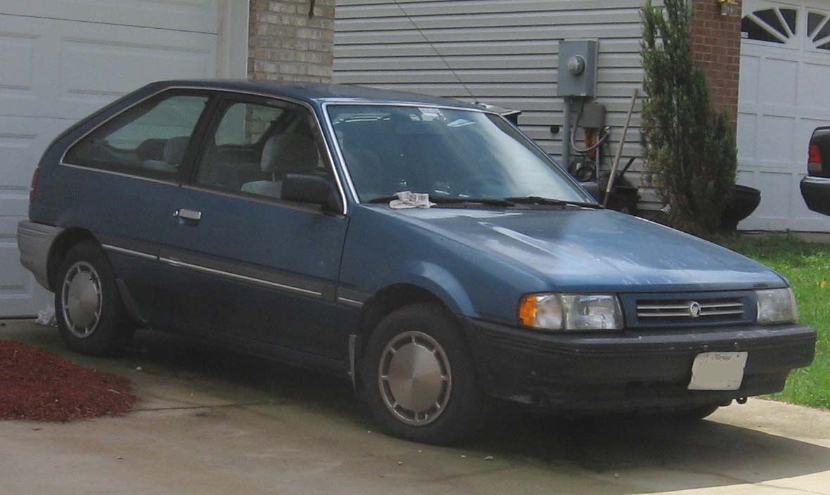 1988-1990 Mercury Tracer photographed in USA.